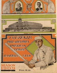 Cover of souvenir program for Shibe Park Opening Day, April 1909